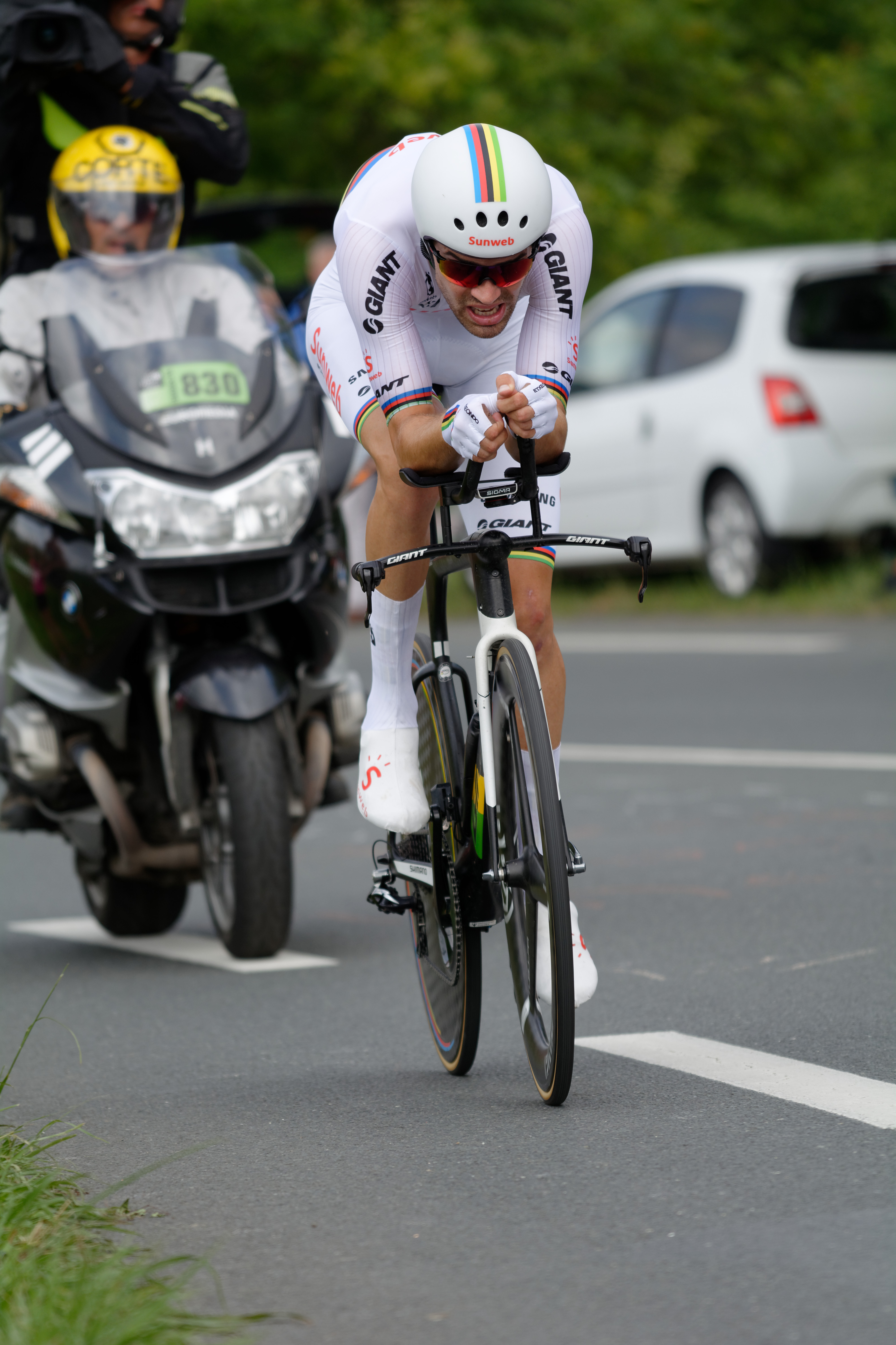 2018 Tour de France